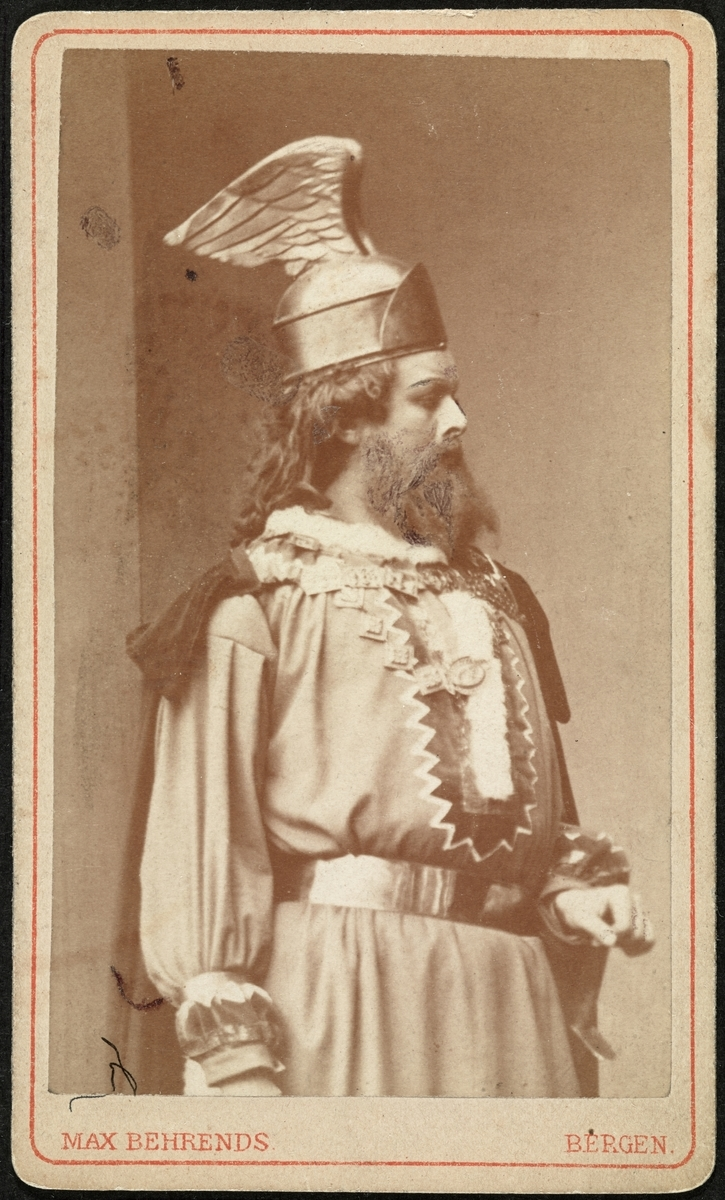 Nicolai Halvorsen as Haakon Haakonssøn (Haakon IV of Norway) in "The Pretenders" by Henrik Ibsen at Den Nationale Scene in Bergen in 1879. Depicted person: Nicolai Halvorsen – Norwegian actor